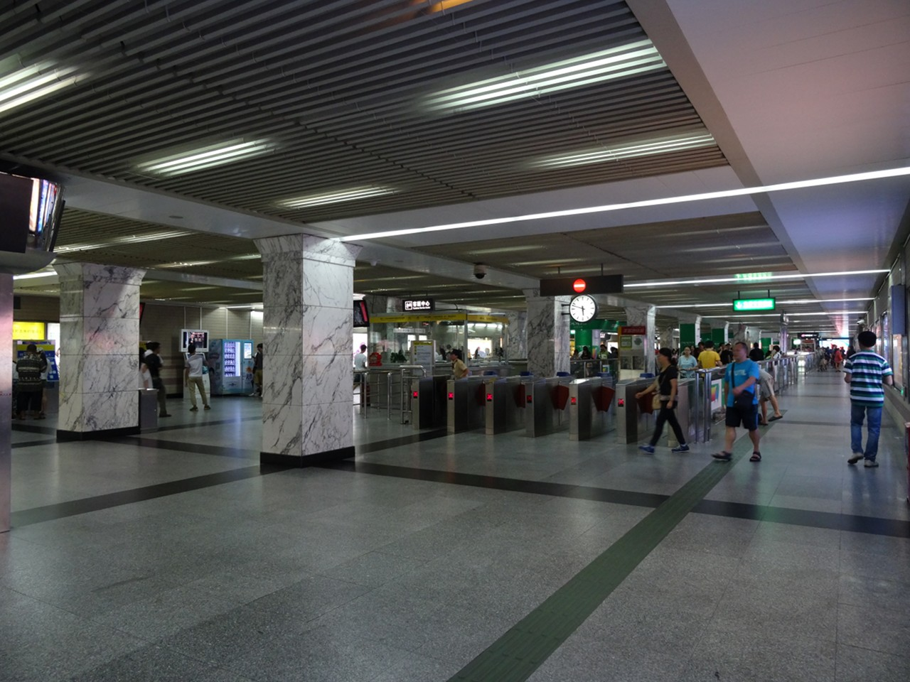 烈士陵园站嘅站厅